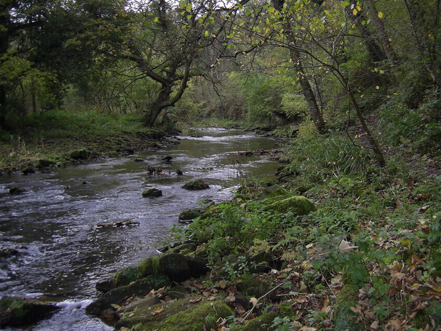 River Blyth Humford Woods This photo was taken just before Humford Mill